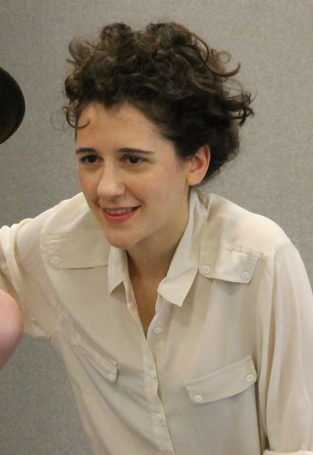 Ellie Kendrick. Game of Thrones.